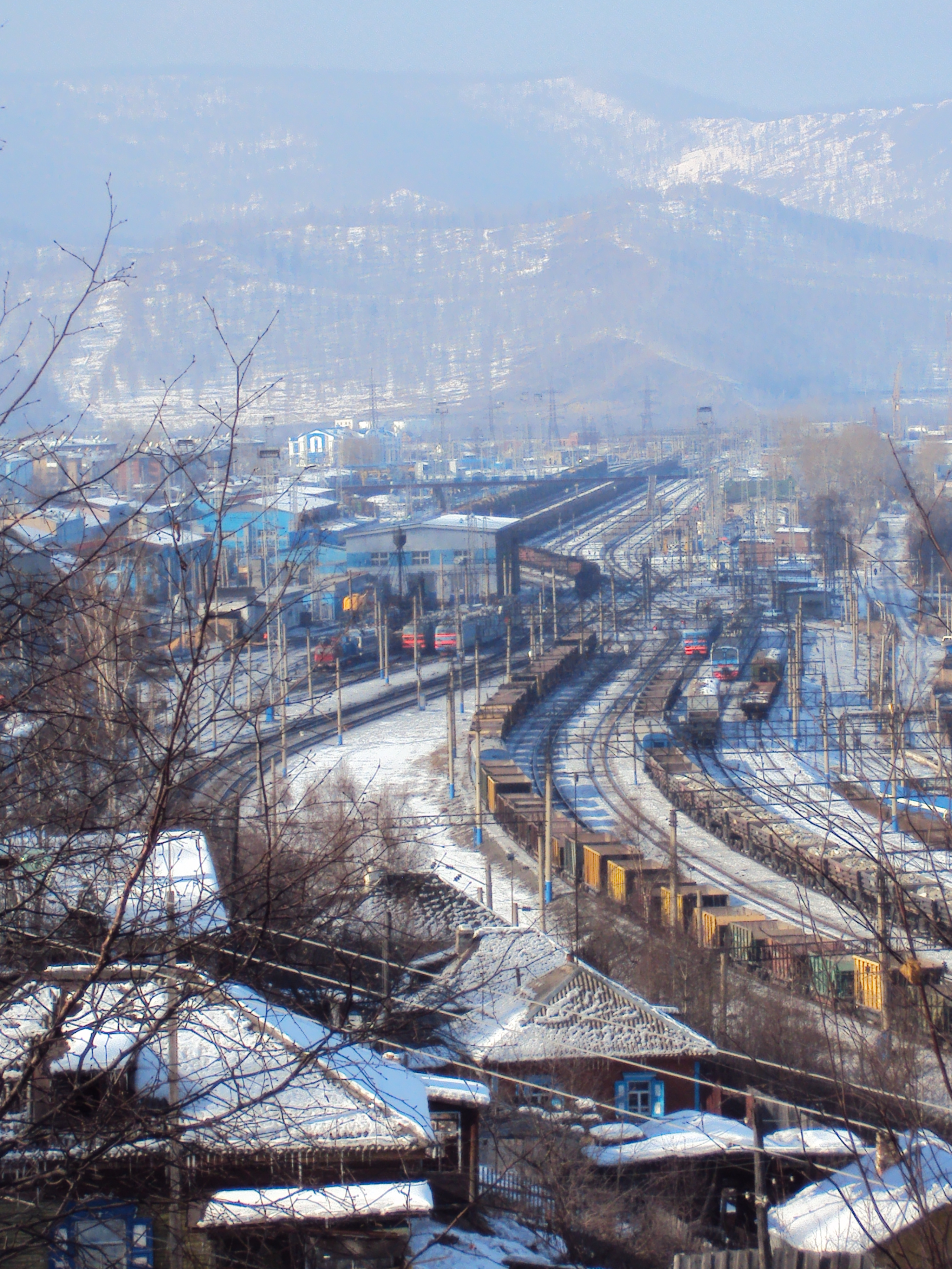 Железнодорожный узел Слюдянки